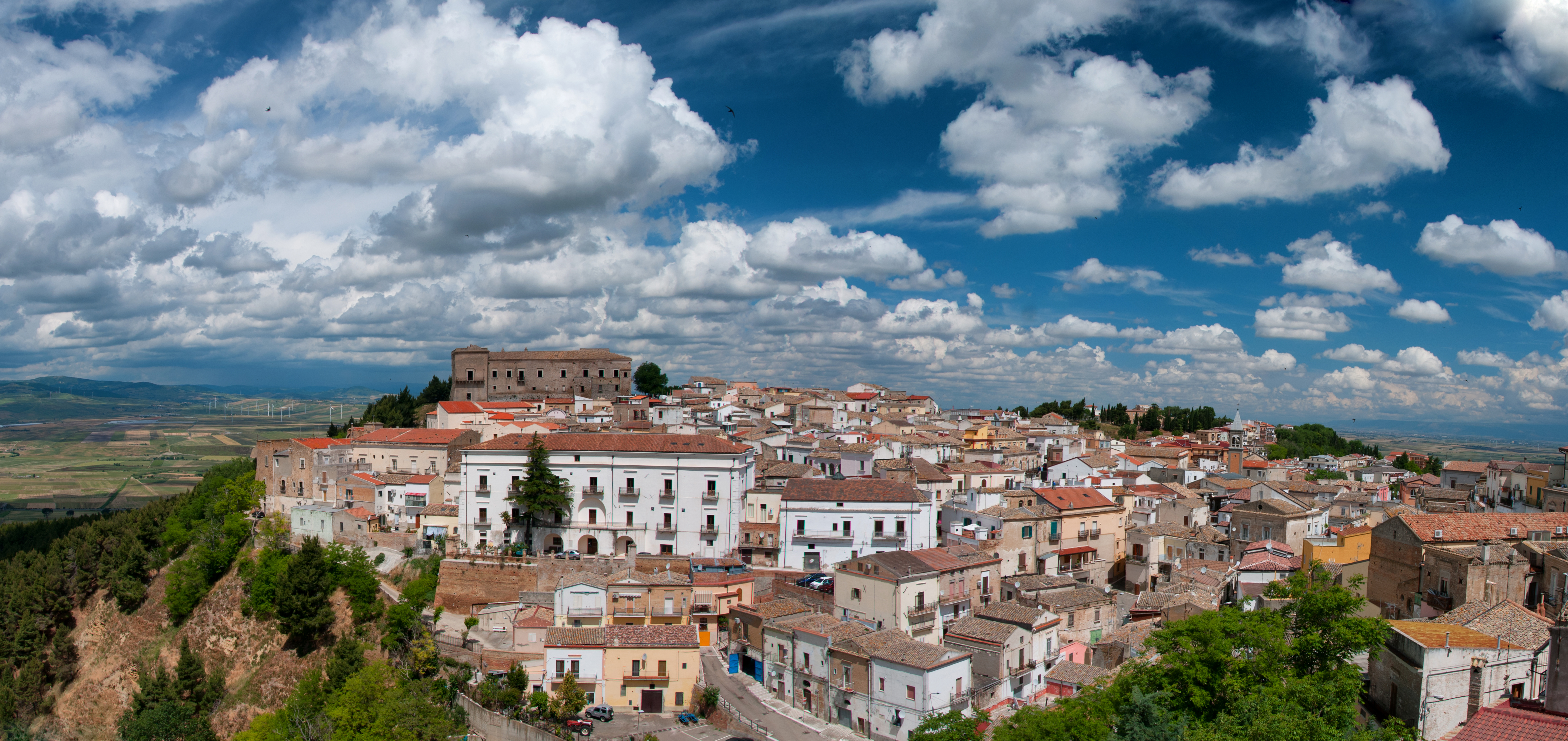 A panoramic view if Ascoli Satriano